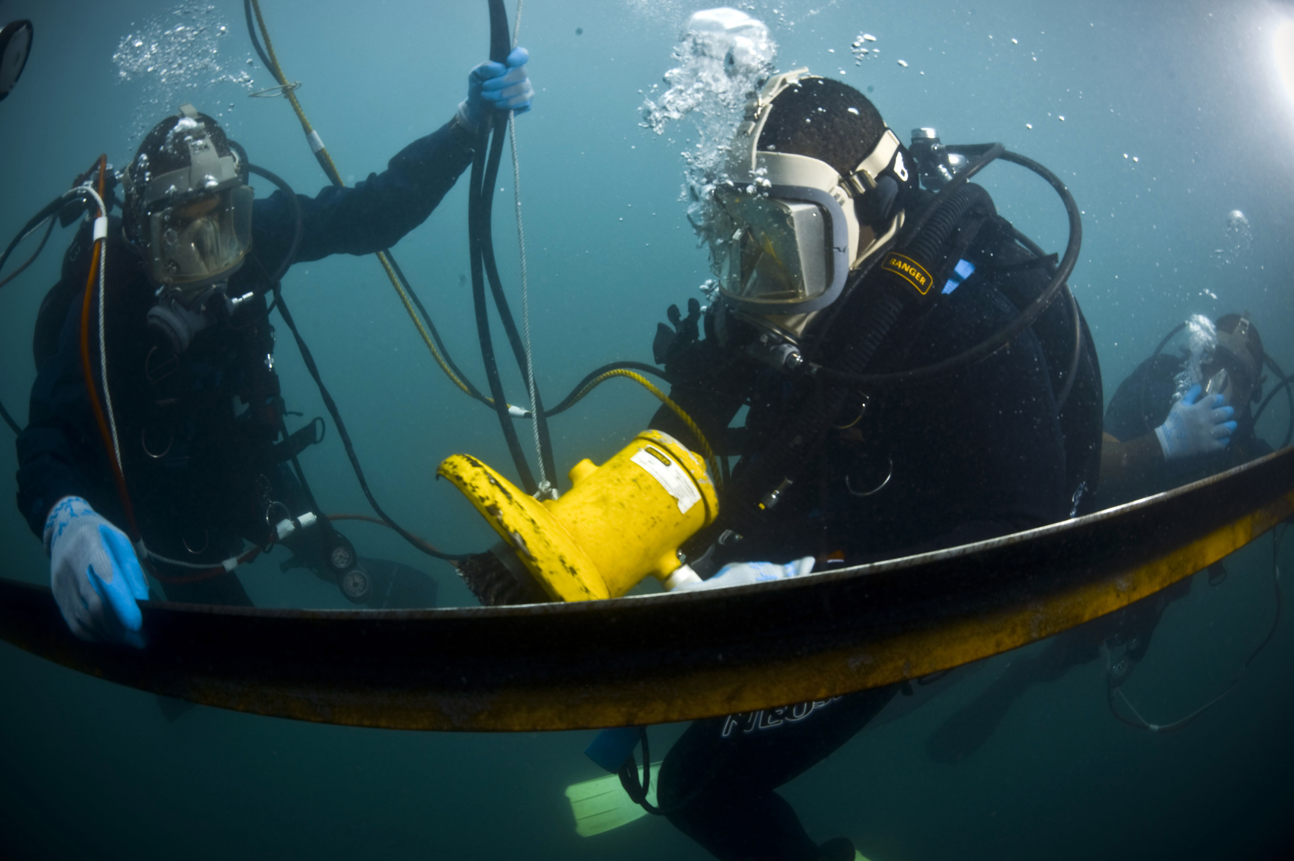 BRIDGETOWN, Barbados (May 27, 2010) Navy Diver 2nd Class Sam Elliot, left, assigned to company 26 of Mobile Diving and Salvage Unit (MDSU) 2, instructs a Barbados Coast Guard diver on the proper way to use a hydraulic grinder underwater. MDSU-2 is participating in Navy Diver-Southern Partnership Station, a multinational partnership to increase interoperability and partner nation capacity through diving operations. (U.S. Navy photo by Mass Communication Specialist 2nd Class Chris Lussier/Released)